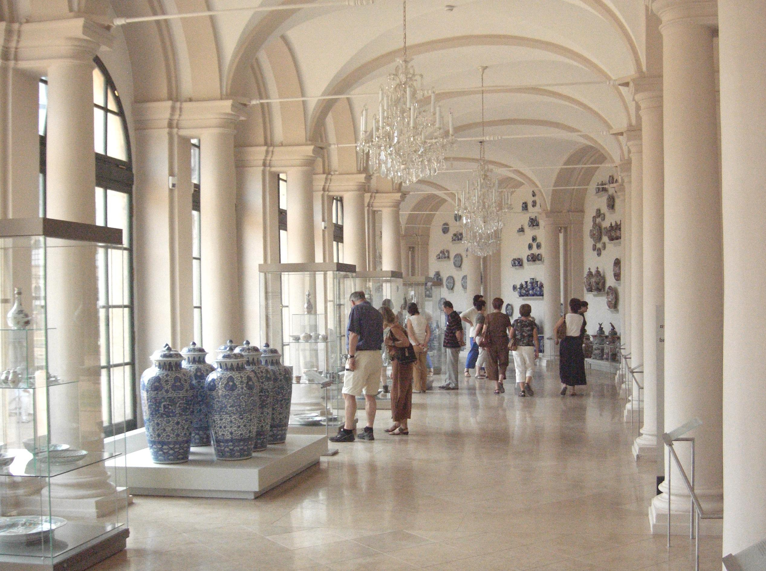 Porcellain Collection in the Zwinger Palace, Dresdner (Germany)